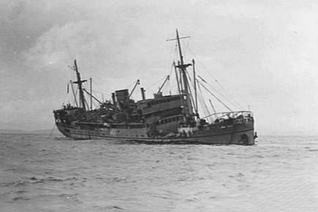 The Australian vessel MV Malaita shortly after she had been torpedoed by the Japanese submarine RO-33 off Port Moresby, Papua New Guinea, on 29 August 1942. Only one casualty was sustained, the chief steward with two broken legs. The vessel was towed into port on the following day. On 15 September, Malaita proceeded under her own power to Cairns, Australia, arriving 20 September and having steamed the 790 miles from Port Moresby at an average speed of 7 knots. She arrived at Sydney on 13 November 1942. The extent of her damage was so severe that repairs were not undertaken until October 1945. After the repairs were completed in April 1947 she resumed trade to New Guinea and remained in this service until being sold for scrap in 1971.